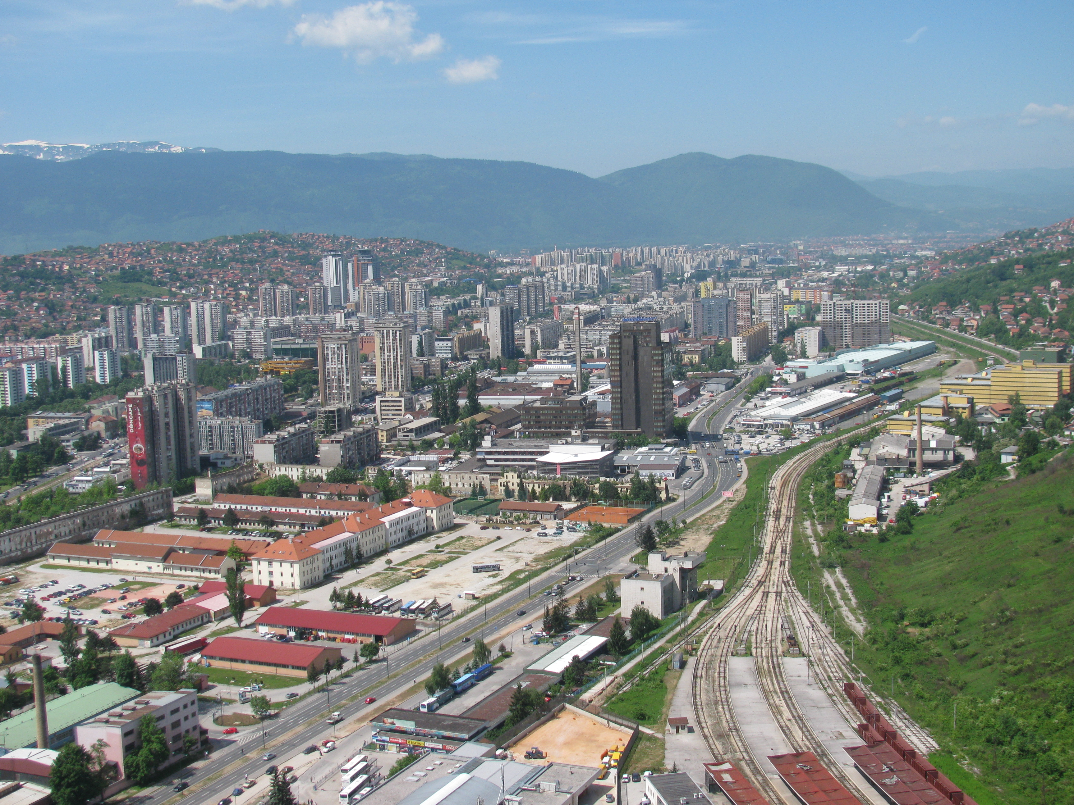 Mount Igman